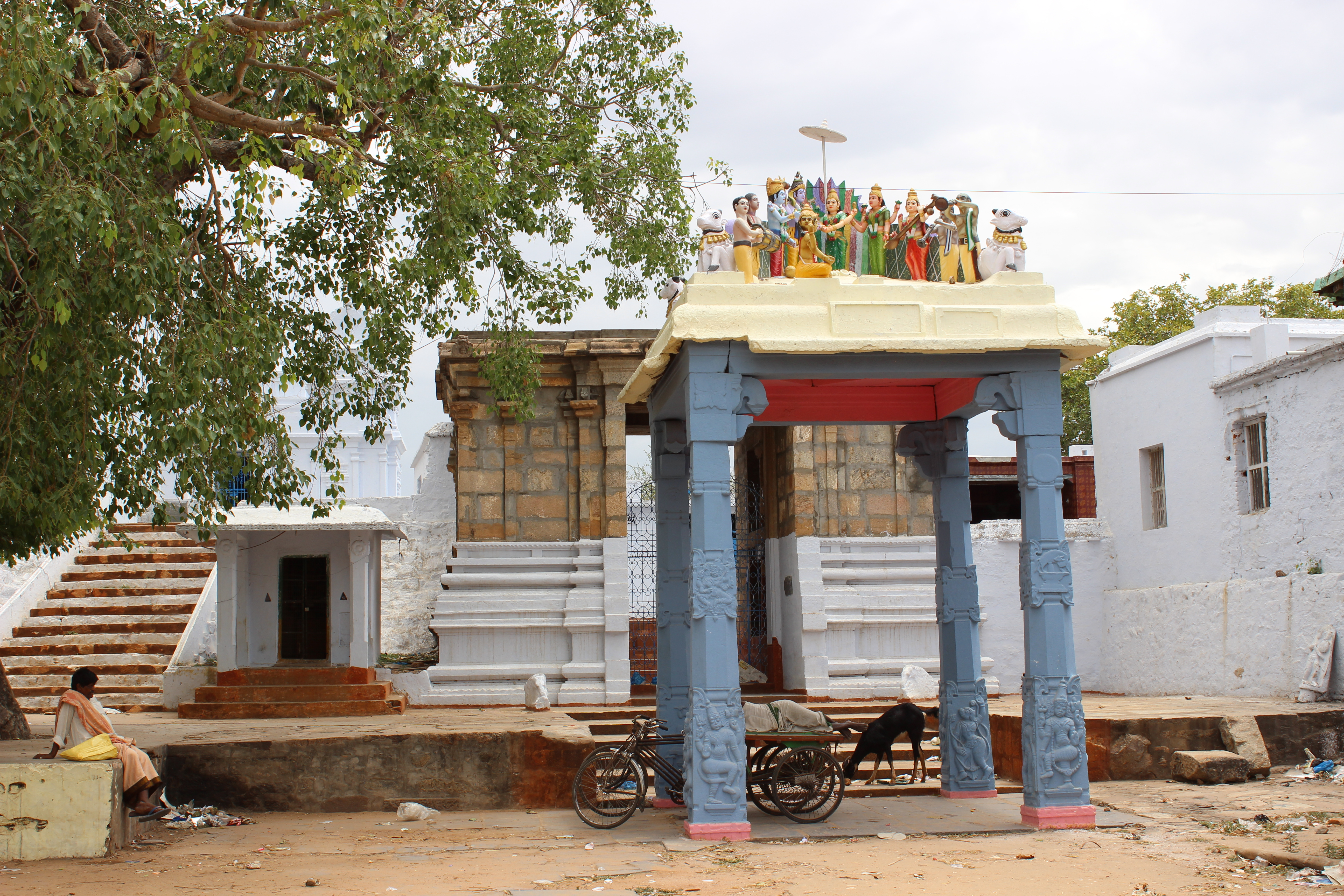 Sangameswara temple photos